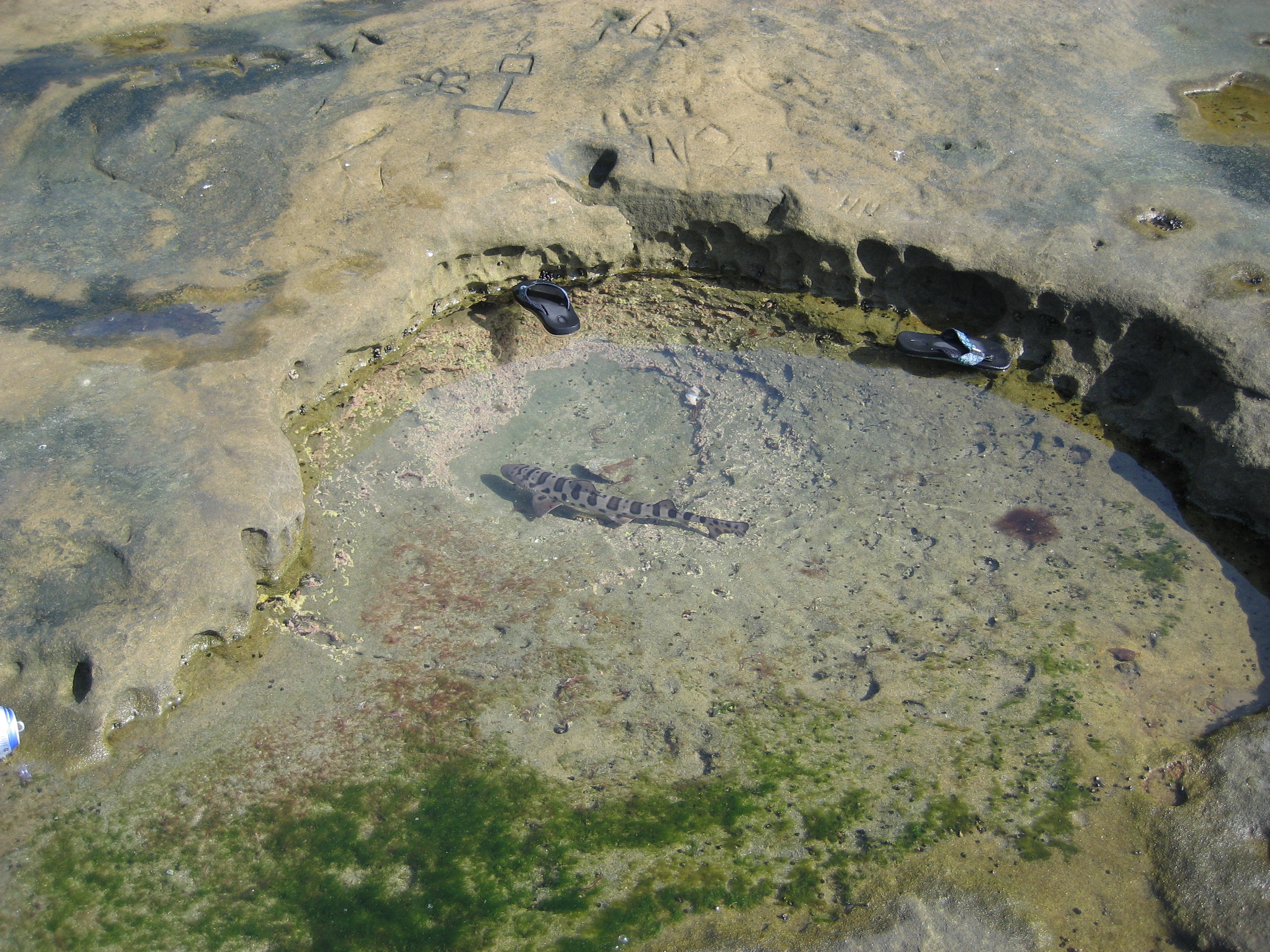 Leopard shark (Triakis semifasciata) near San Diego